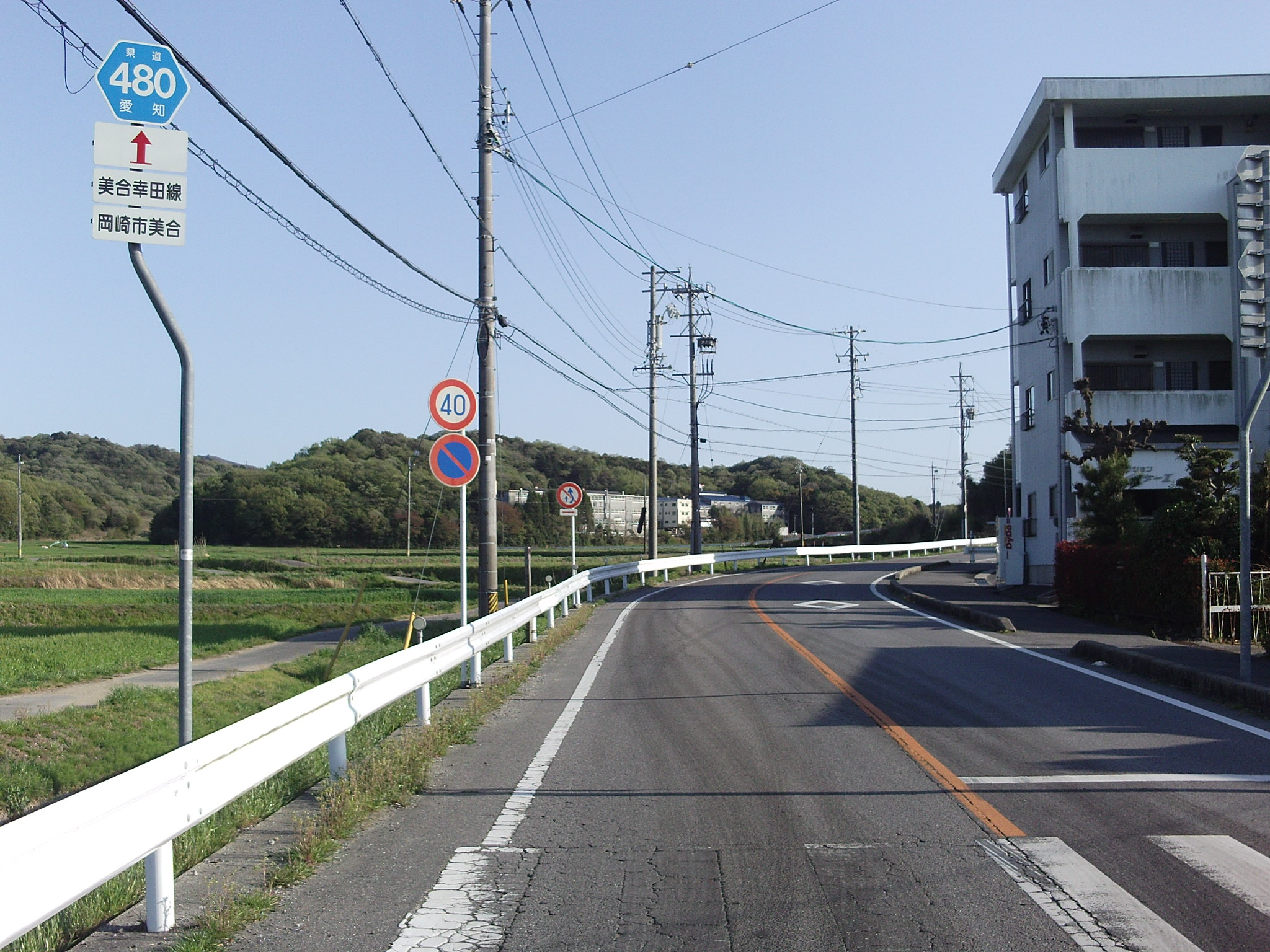 Aichi prefectural road No.480 in Miaicho, Okazaki, Aichi.